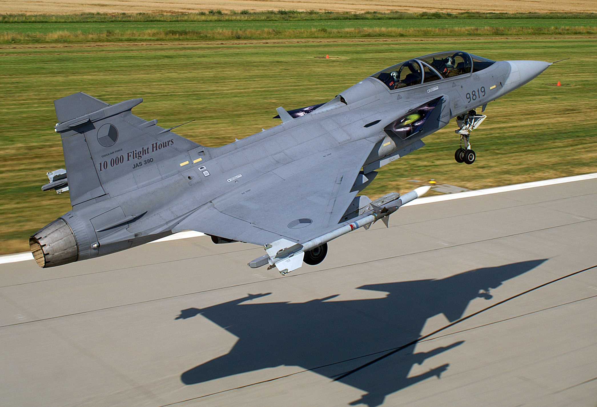 Saab JAS-39 Gripen of the Czech Air Force taking off from AFB Čáslav.